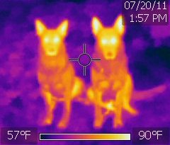 Thermal image of two German Shepher dogs.